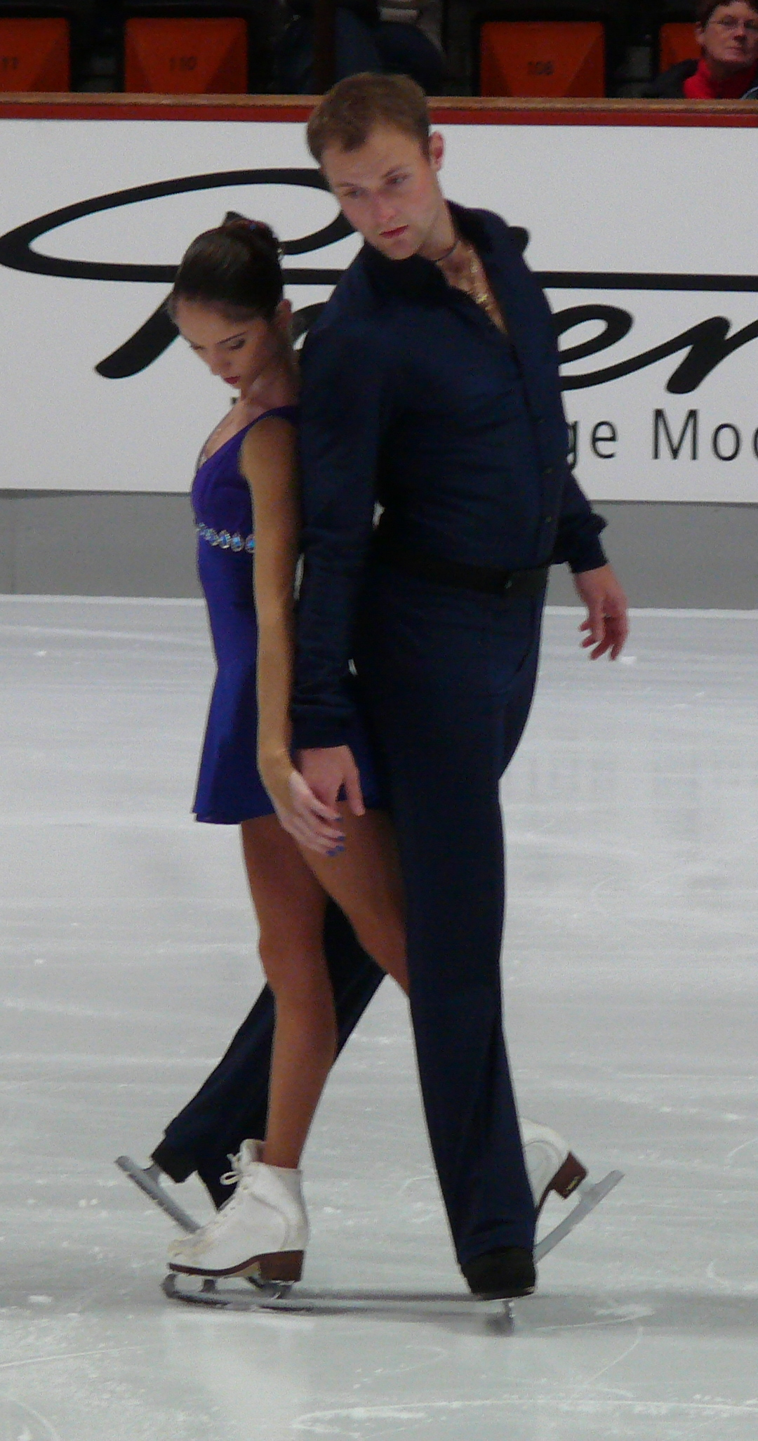 Vera Bazarova and Yuri Larionov (RUS) at their short program at the Nebelhorn Trophy 2012 in Oberstdorf/Germany